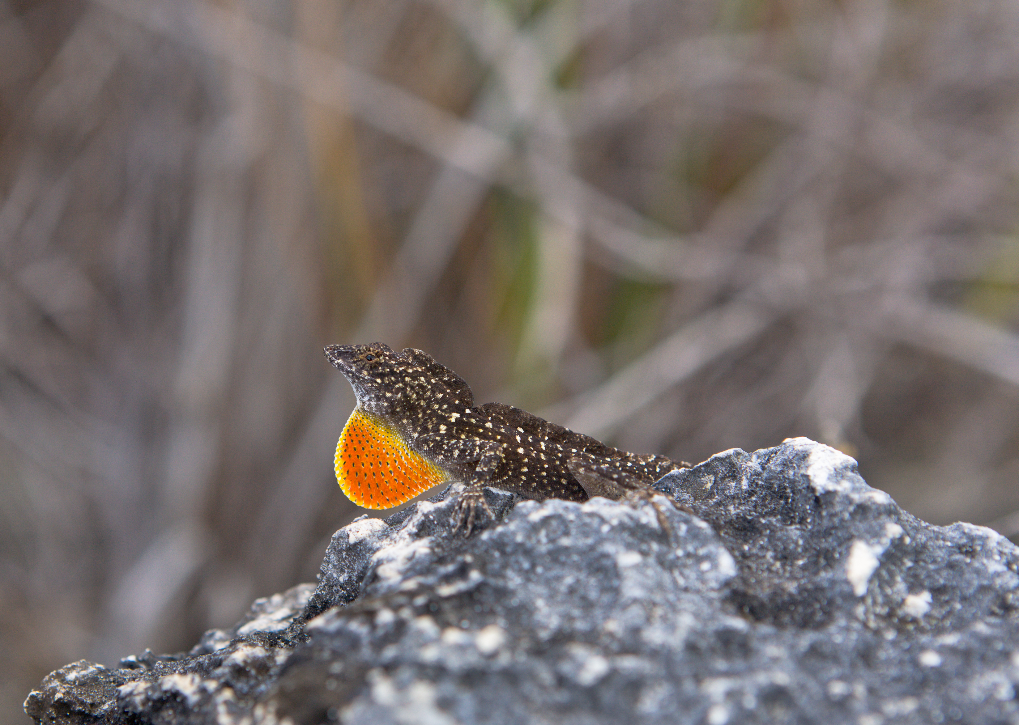 Male anolis sagrei expanding its throat